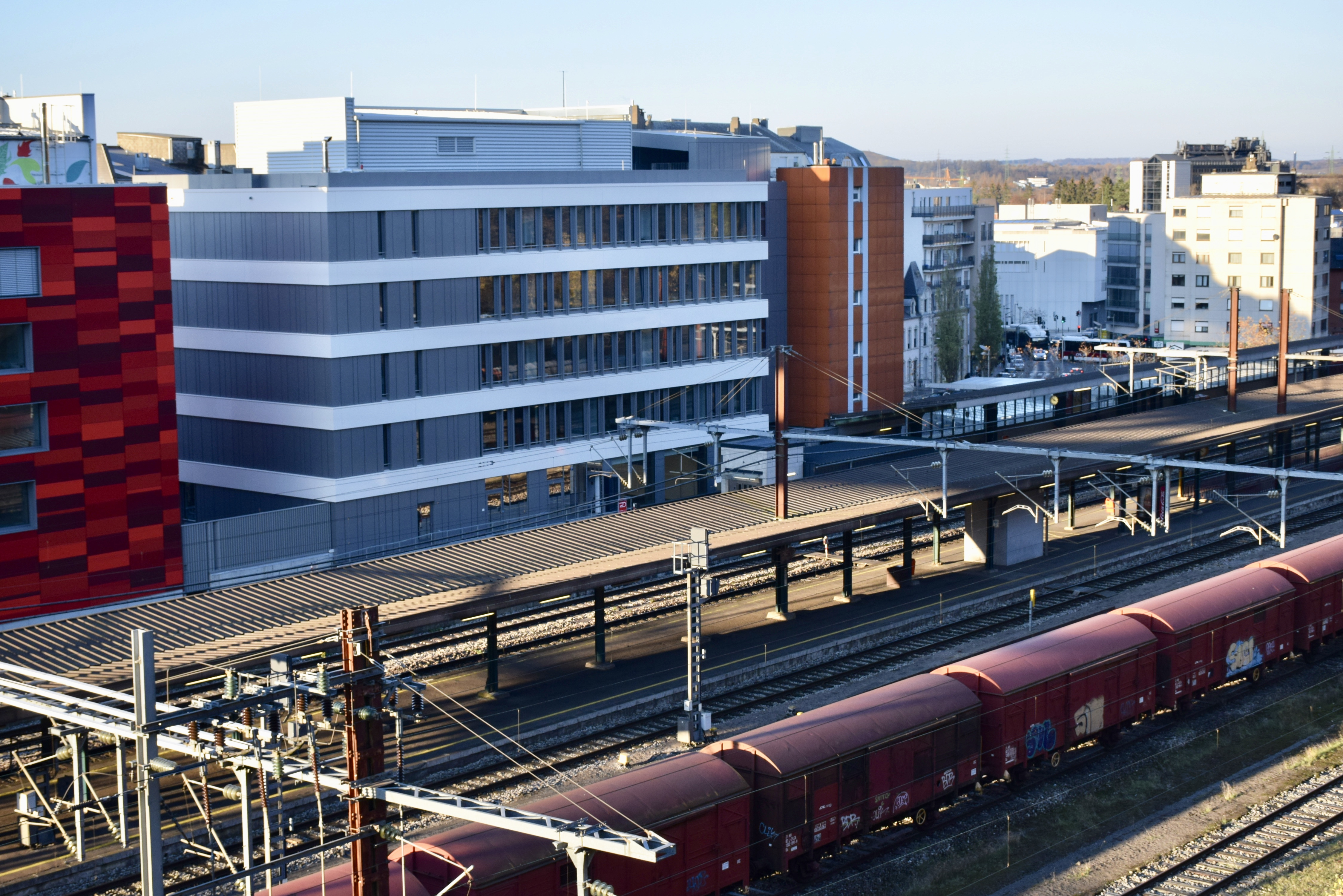 Railway station Esch-sur-Alzette (rear view)